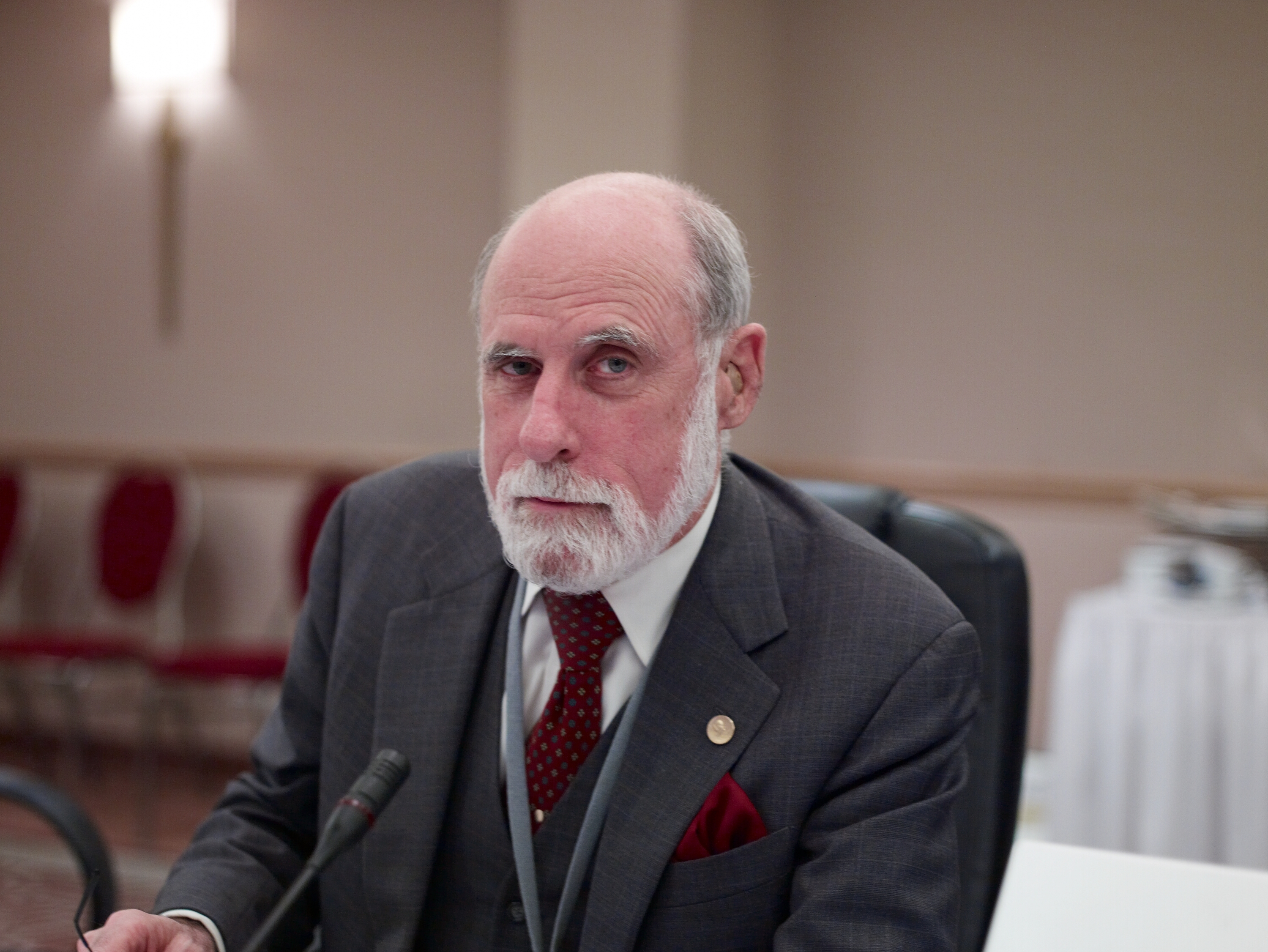 Vint Cerf